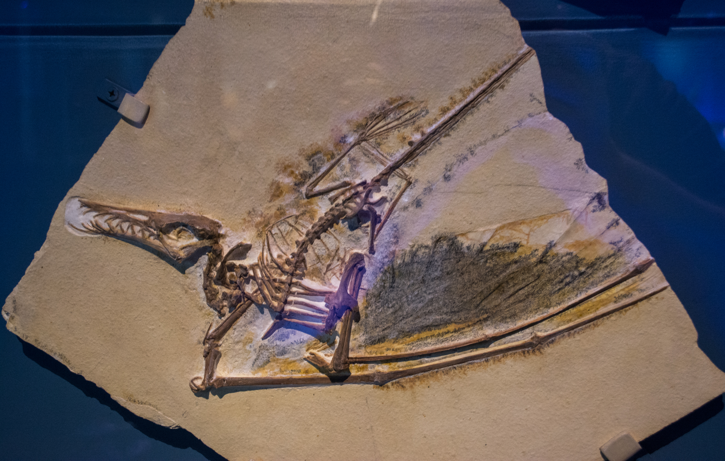 Cast of Rhamphorhynchus muensteri ("dark wing" specimen) - Pterosaurs Flight in the Age of Dinosaurs